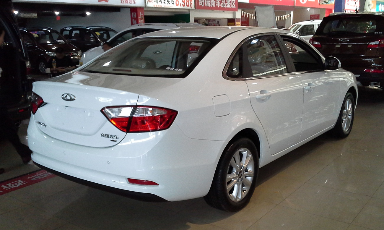 Chery Arrizo 7 photographed in Chengdu, Sichuan province, China.